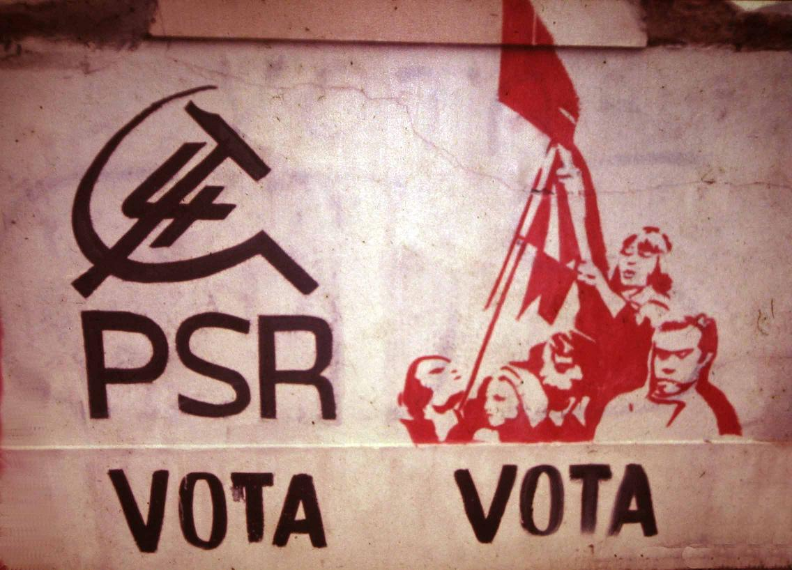 Vote PSR